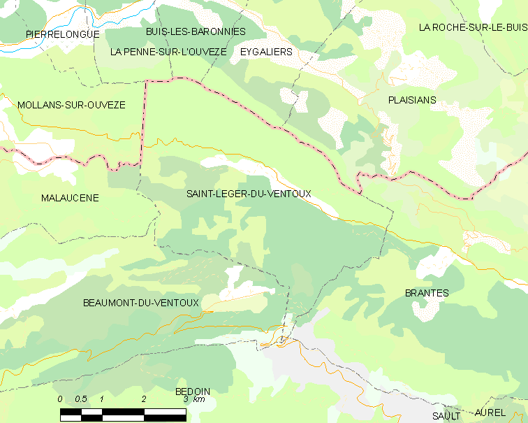 Map of French municipality Saint-Léger-du-Ventoux